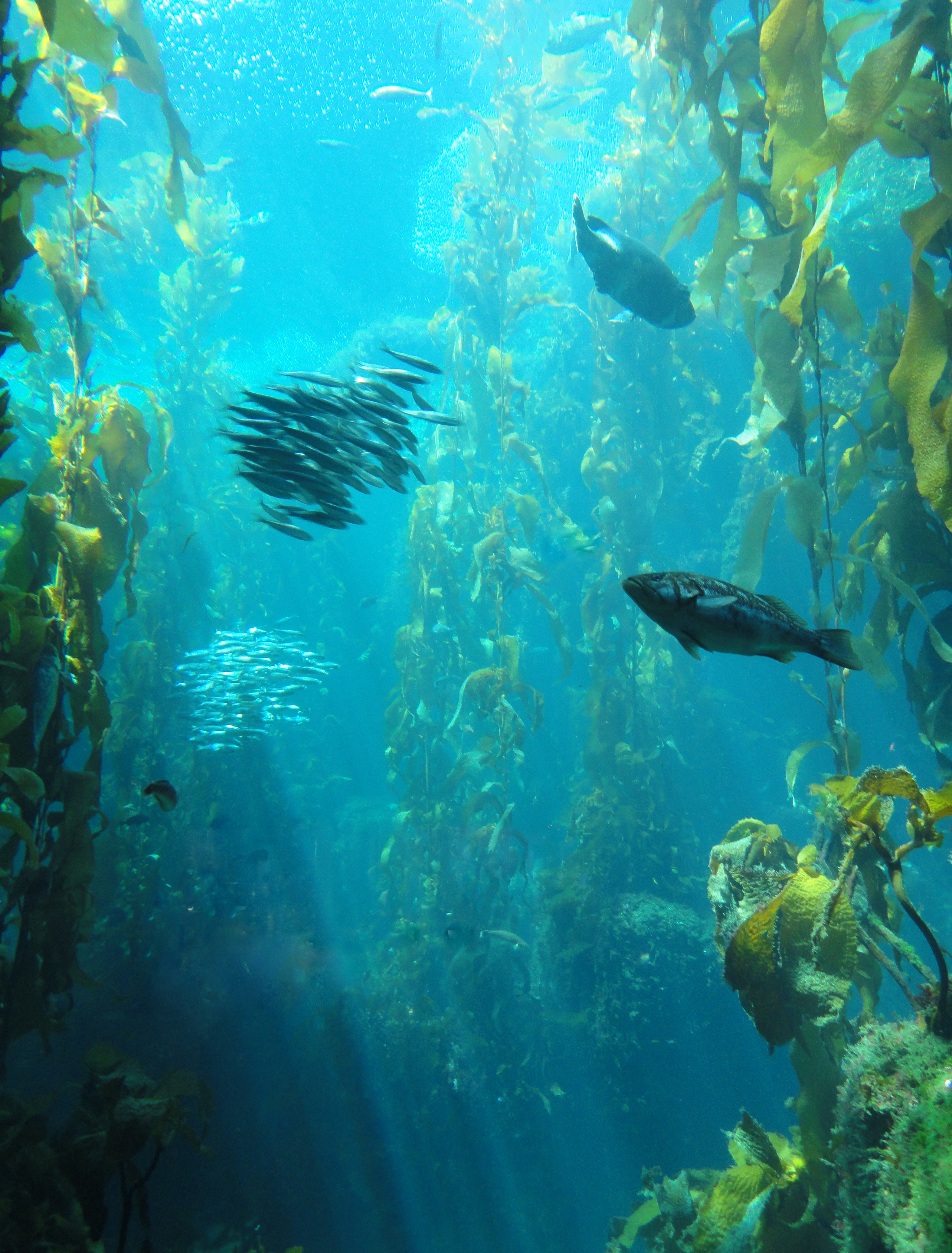 Kelp Forest tank, Monterey Bay Aquarium, Monterey County, California, USA.